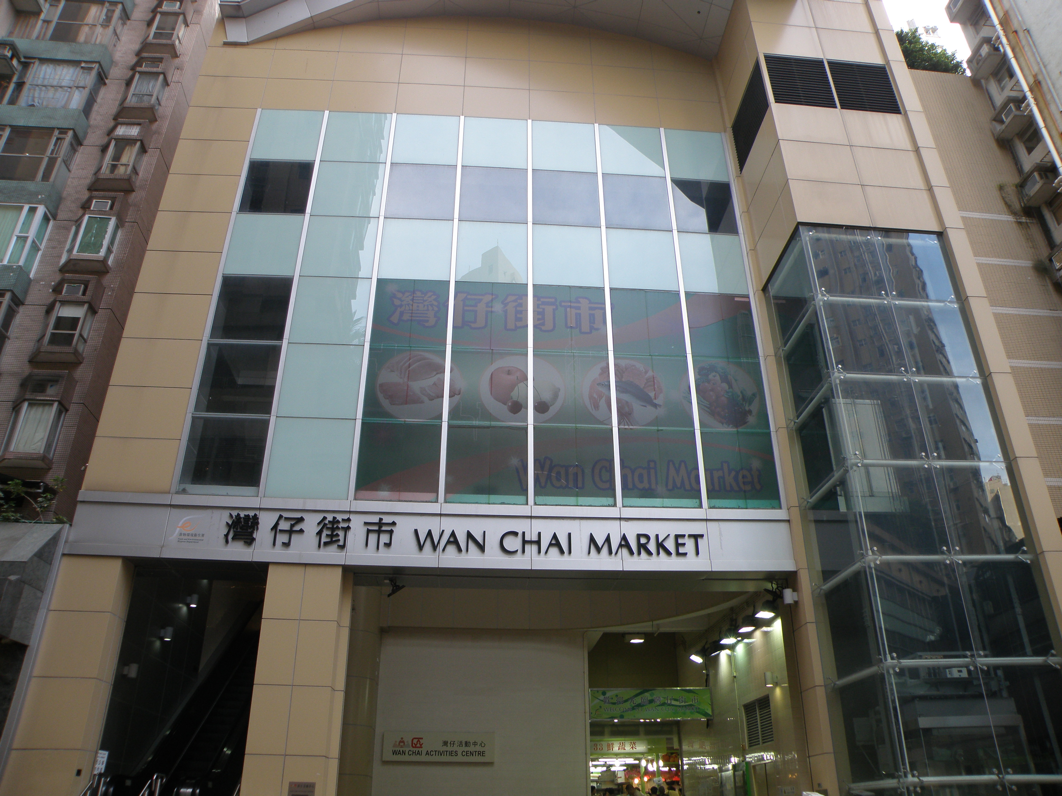 Wan Chai Road entrance and exit of Wan Chai Market, Hong Kong.